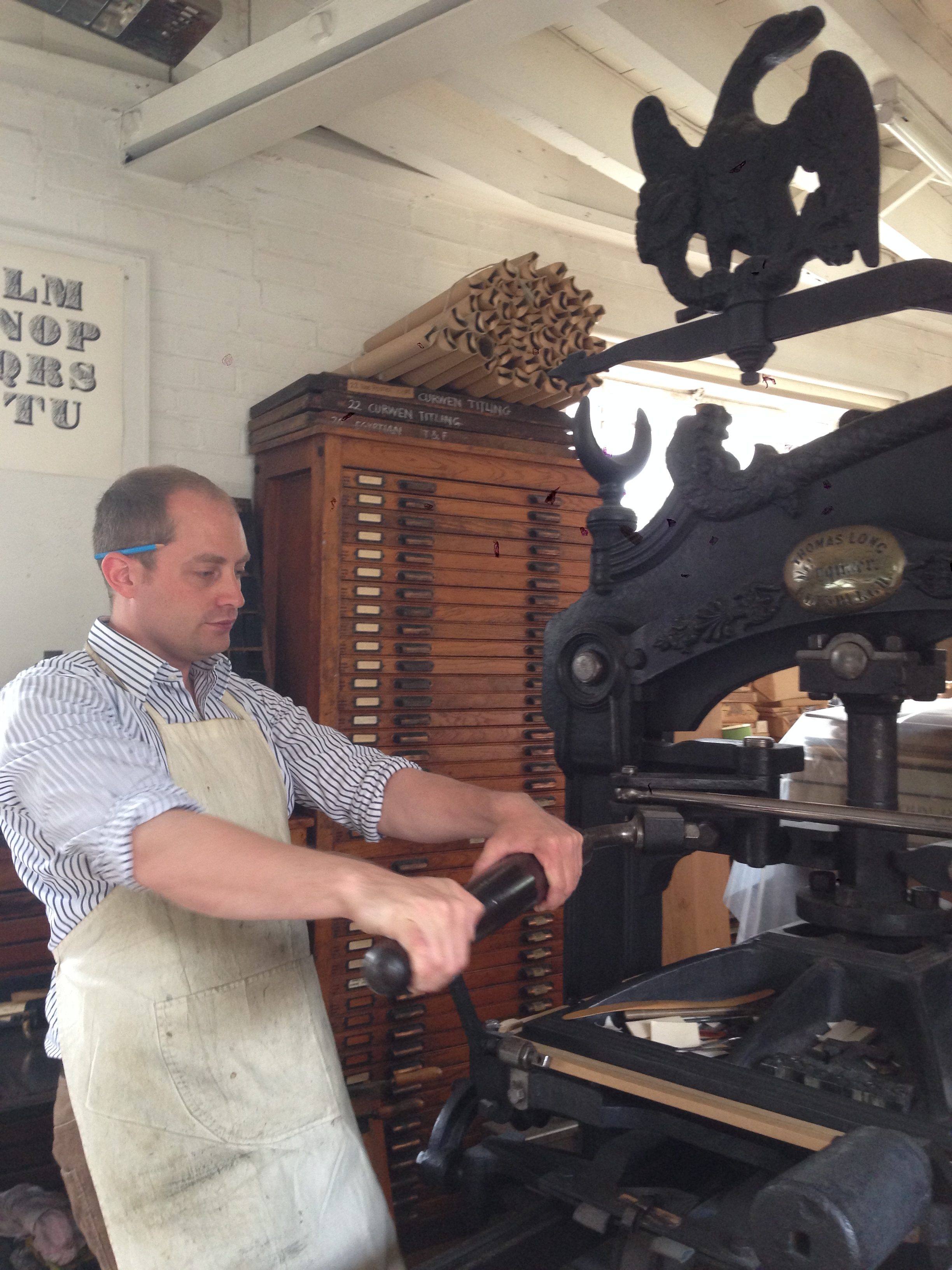 James Freemantle printing on a Columbian Press